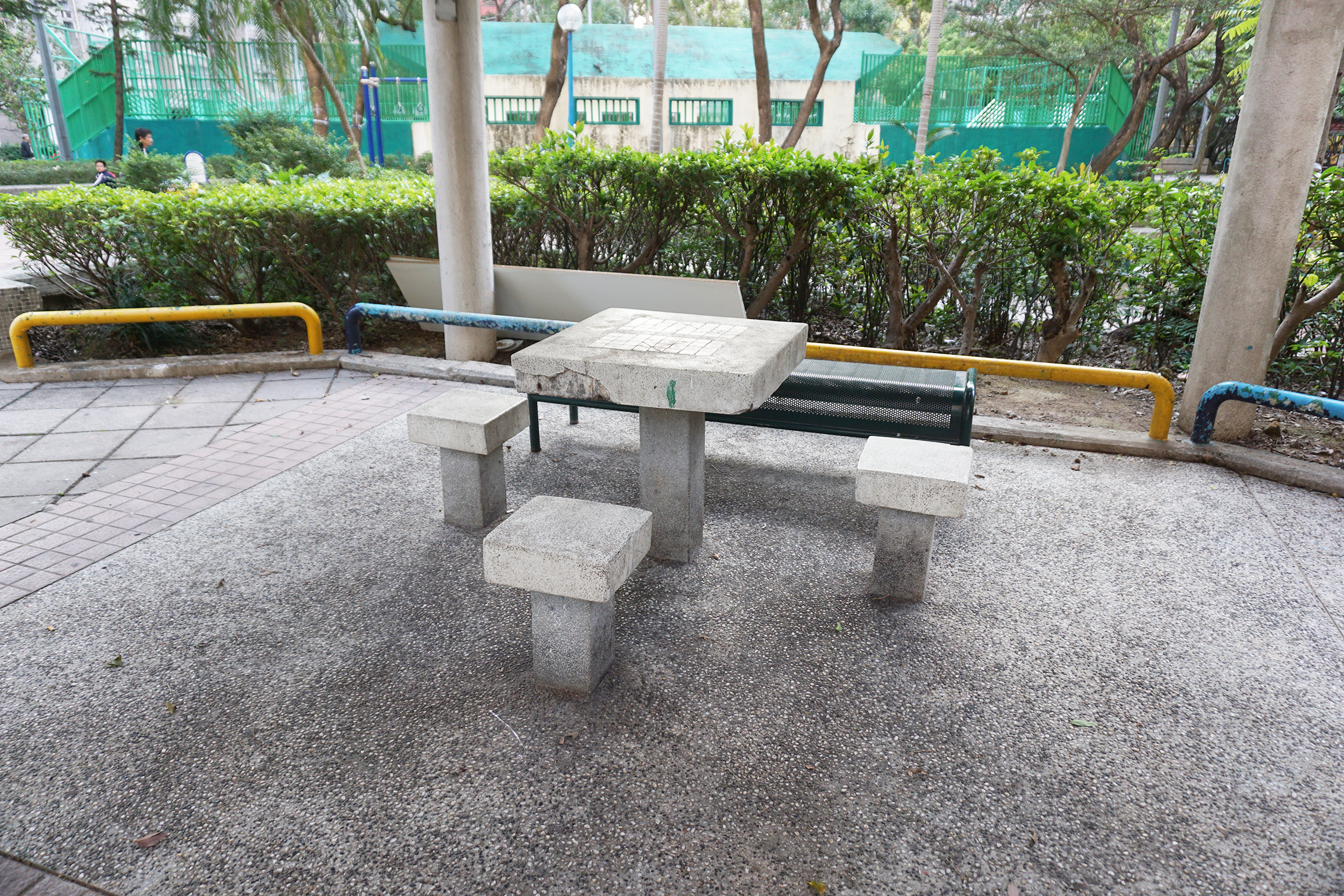 On Shing Court in Sheung Shui, Hong Kong.